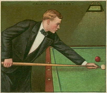 Calvin Demarest featured on a 1911 Mecca cigarette card.